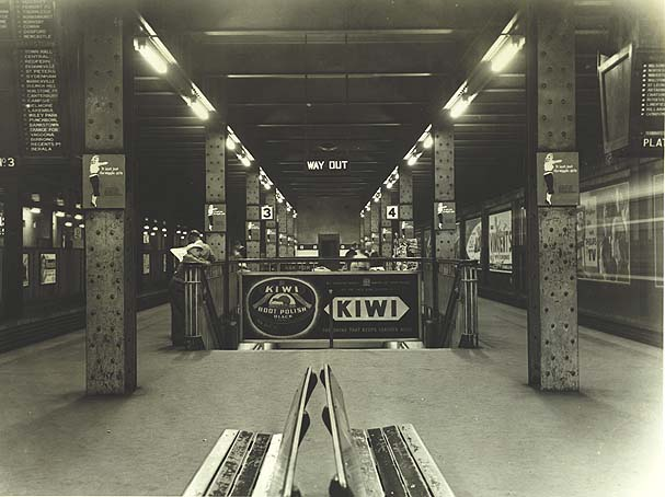 Waiting platforms at Wynyard Railway Station Dated: No date Digital ID: 17420_a014_a014000662 Rights: We'd love to hear from you if you use our photos. Many other photos in our collection are available to view and browse on our website using Photo Investigator.